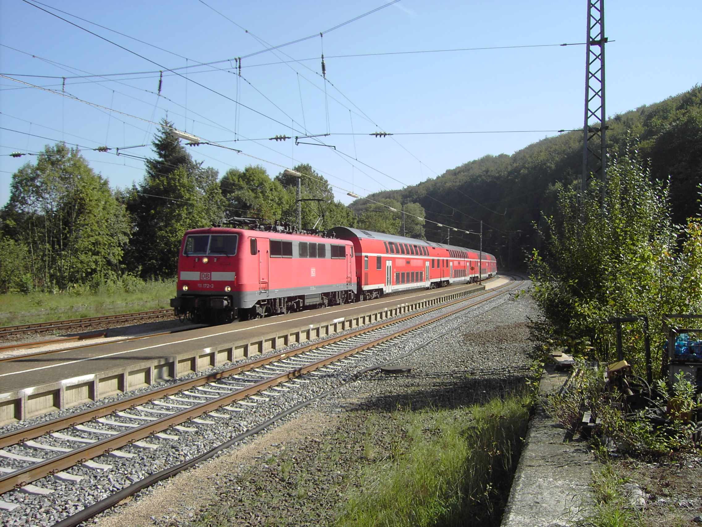 A regional train München - Ingolstadt - Treuchtlingen - Nürnberg arrives at Solnhofen between Ingolstadt and Treuchtlingen.